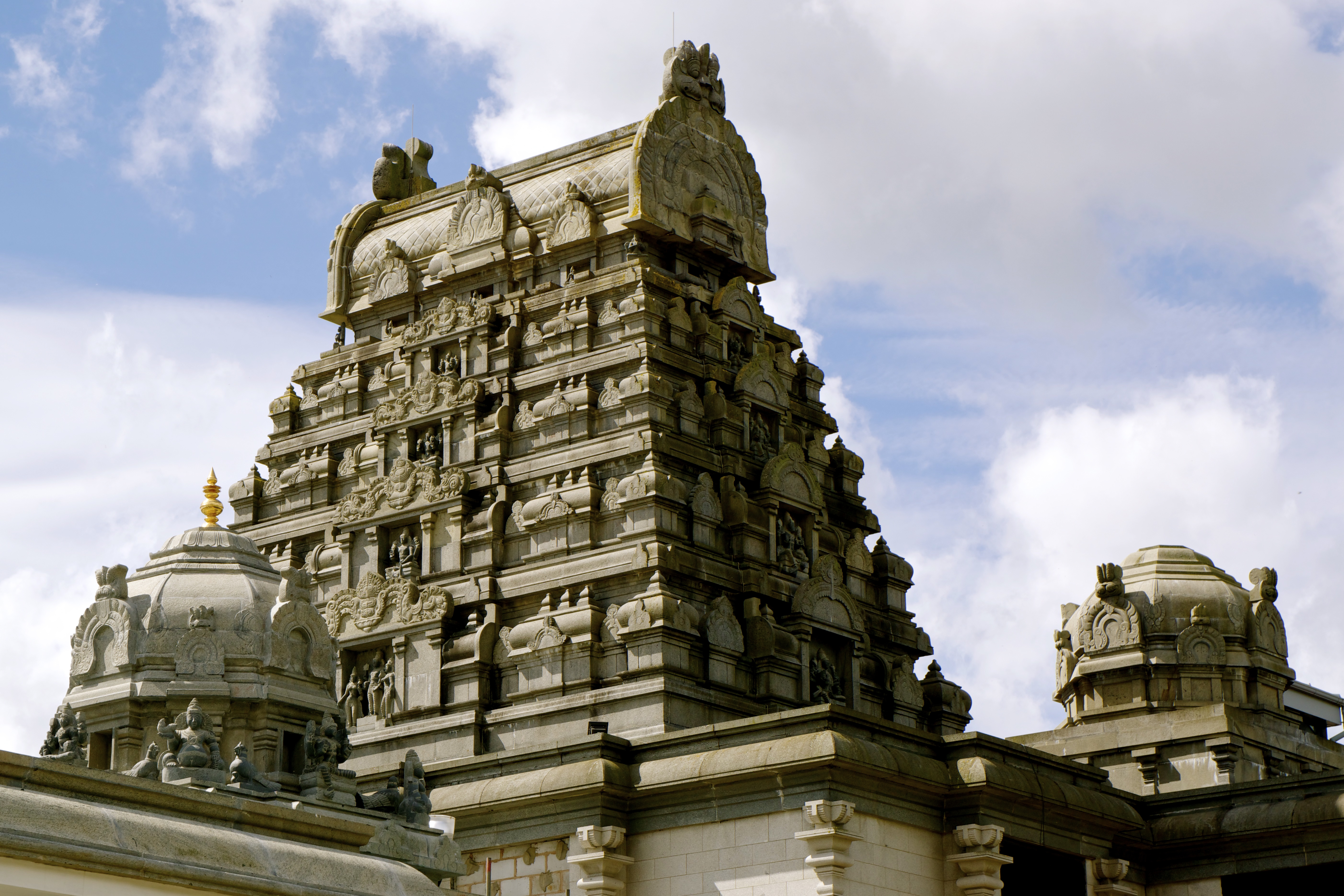 Tividale Tirupathy Balaji Temple. It is on Dudley Road East, A457 behind the Meadows School in Tividale, West Midlands, England, on the border between Tipton and Oldbury; it was designed in the style of the Tirupati Venkateswara Temple in Tirupati, India. Hinduism in United Kingdom